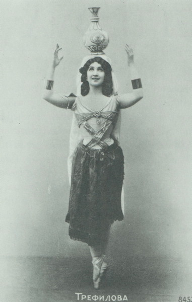 Photo taken by an unknown photographer at the Mariinsky Theatre St. Petersburg, Russia of the Ballerina Vera Trefilova in the Danse Manu in the ballet "La Bayadere" circa 1900. Photo comes from my own collection and was scanned by me.